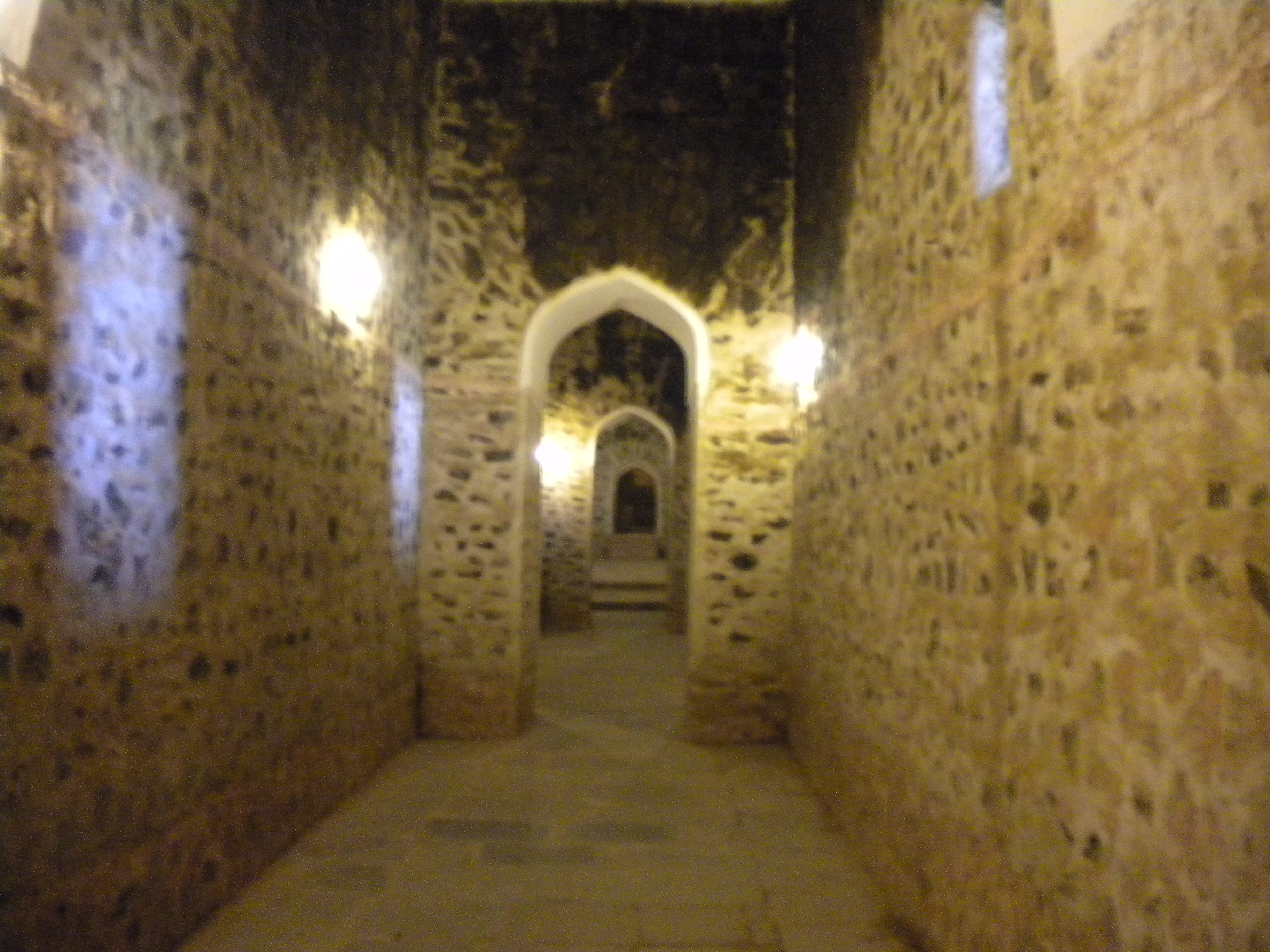 Inside the tunnel of Amber Fort